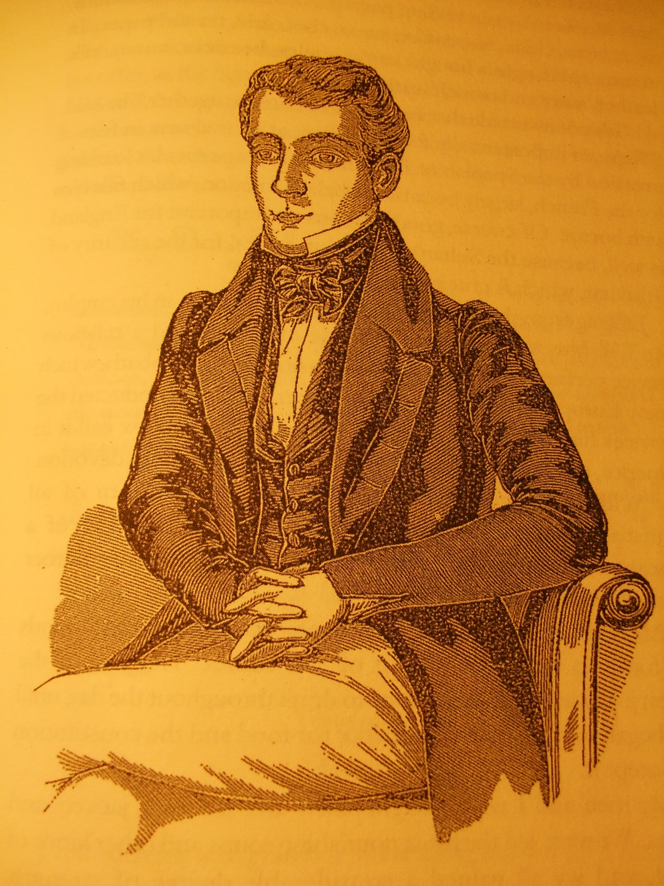 William Willshire seated